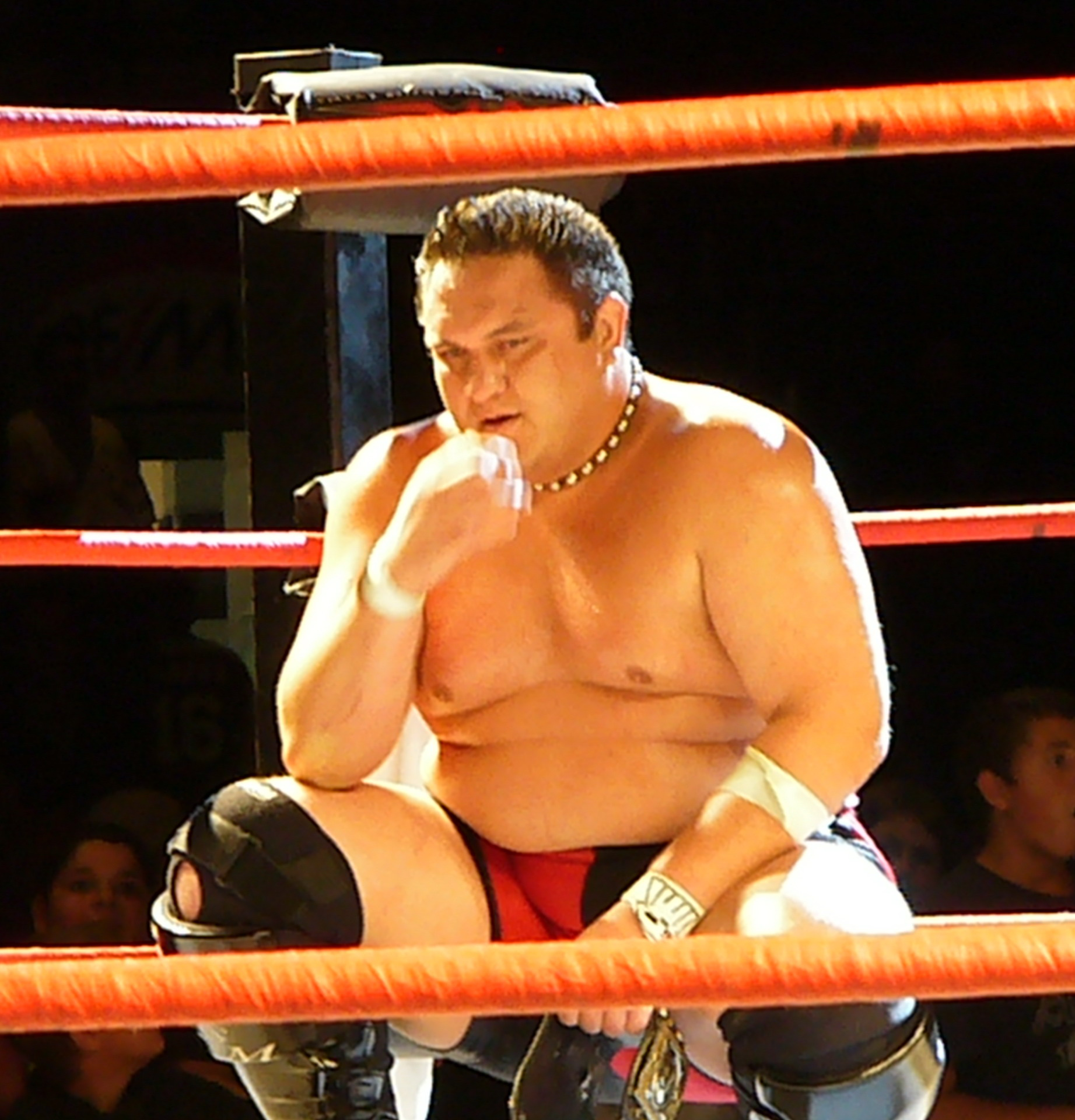 Professional wrestler Samoa Joe, with TNA Heavyweight Championship belt in hands